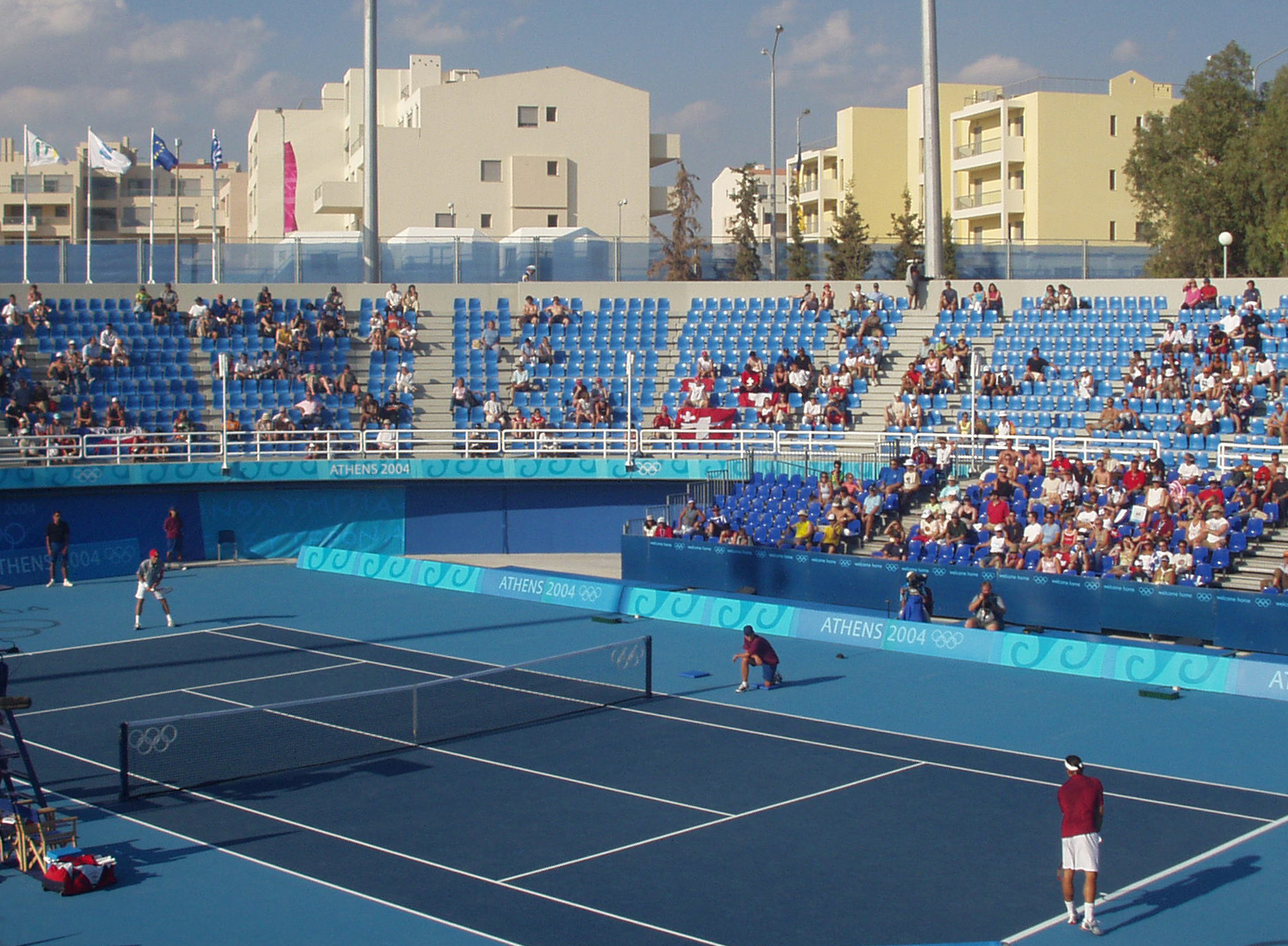 Tennis at the 2004 Summer Olympics